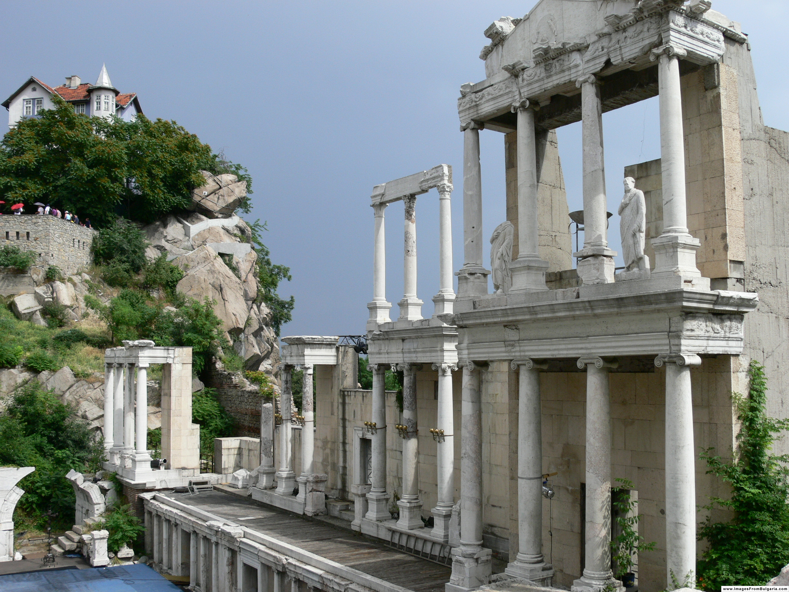 The Ancient theatre in Plovdiv, Bulgaria